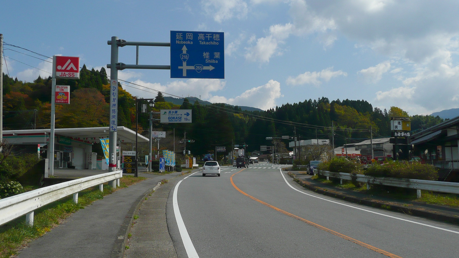 National Route 218 (Mamihara, Yamato Town, Kumamoto Prefecture, Japan)